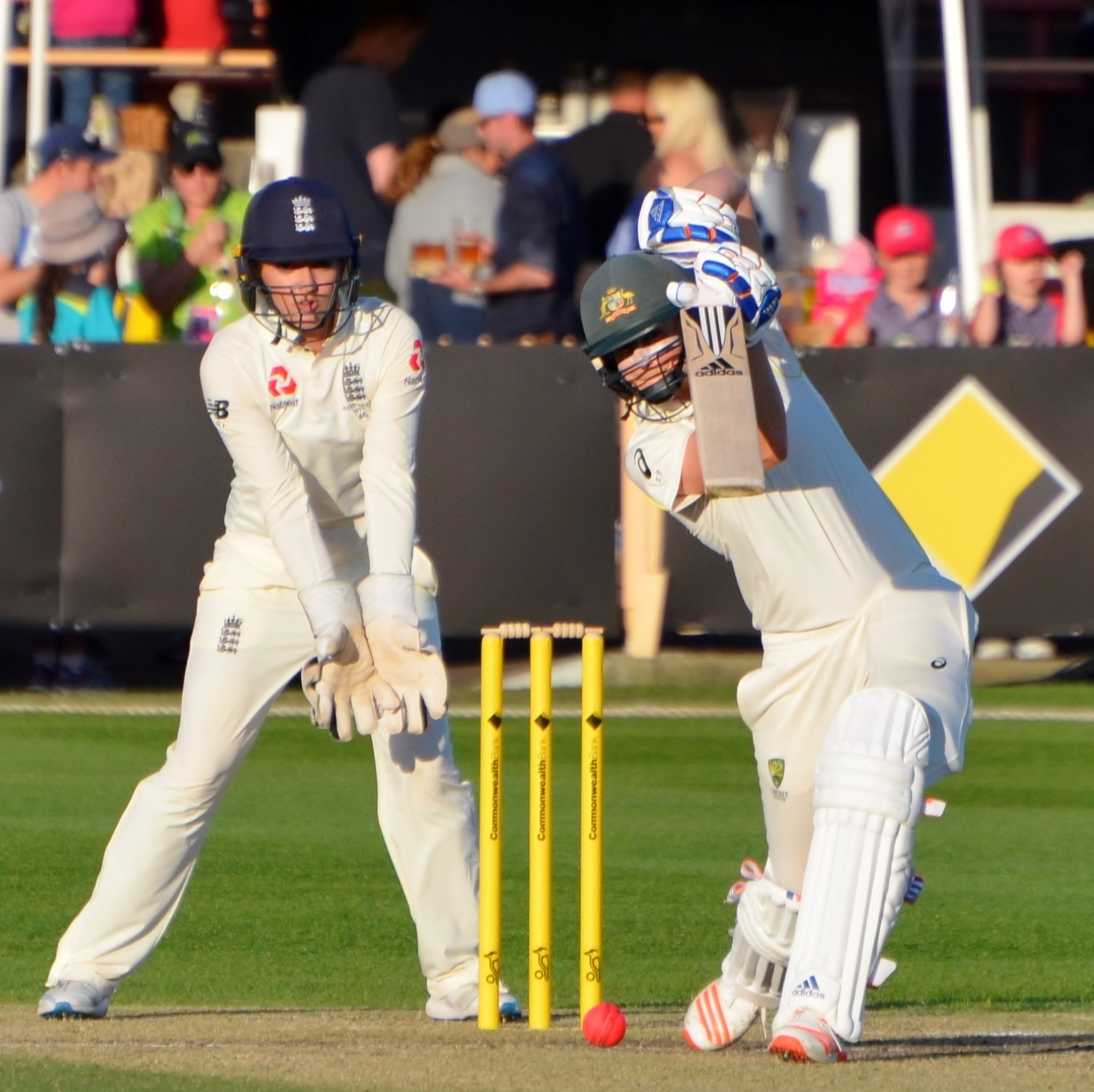 Ellyse Perry in the early stages of her marathon 213* during the 2017–18 Women's Ashes Test at North Sydney Oval. The wicket-keeper is Sarah Taylor.